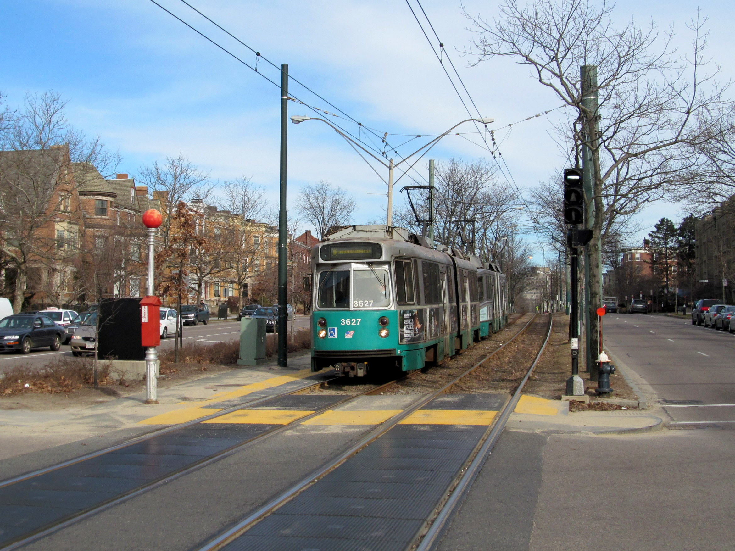 Dean Road MBTA station outbound, Brookline Massachusetts